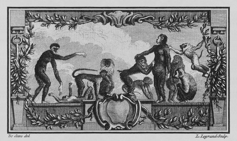 Les Primates (Nomenclature des singes) - Primates (Taxonomy of Monkeys) Image from the French book: Illustrations de Histoire naturelle générale et particulière avec la Description du Cabinet du Roy Tome XIV (Volume 14), Page de Garde (Page 1) - Publisher: Imprimerie royale, Paris (retouched version: removed spots; restored historic black framing; cropping to mod-8 sizes)